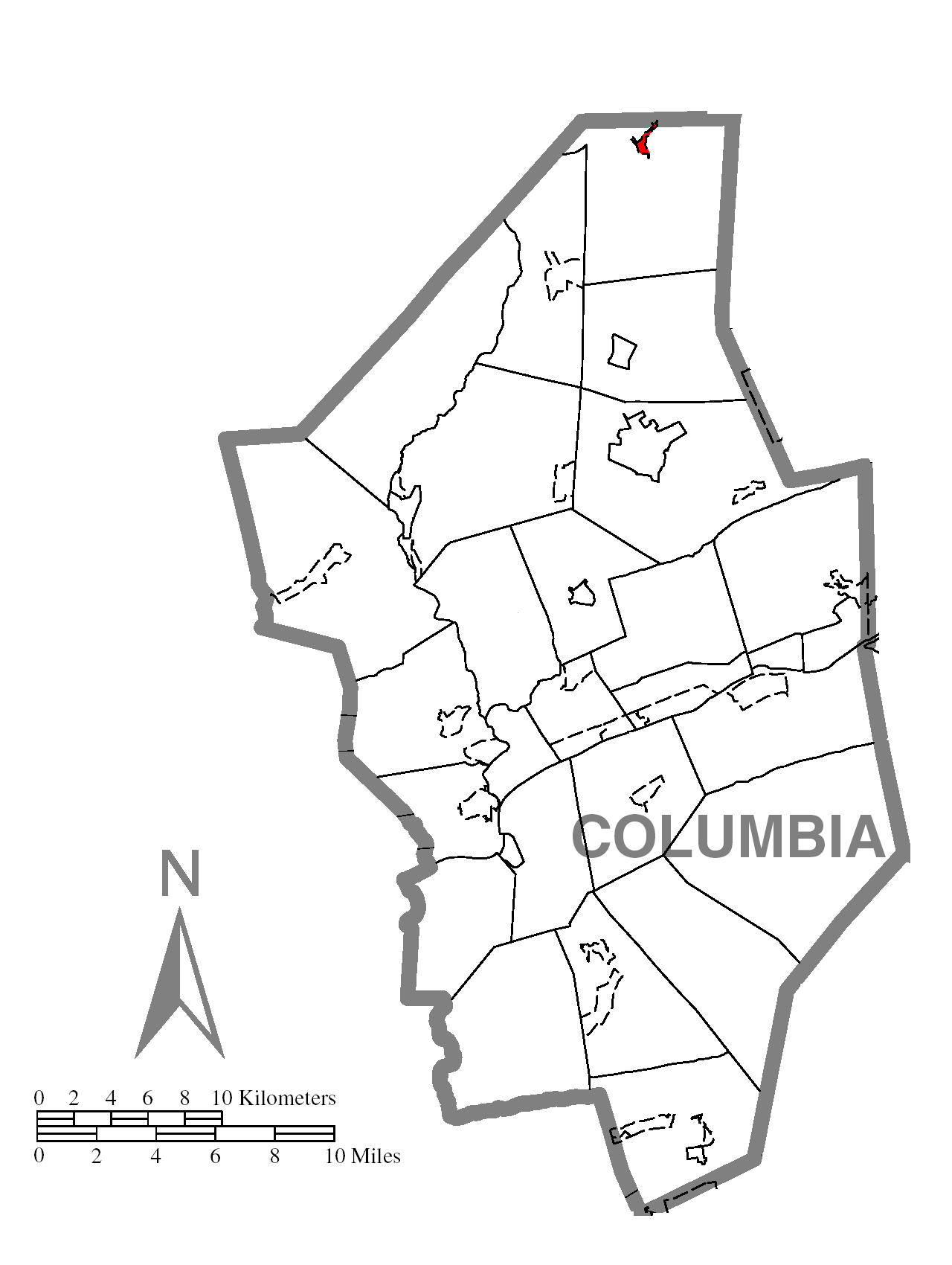 A map of Columbia County showing Jamison City, Pennsylvania (alternate) highlighted on the map.